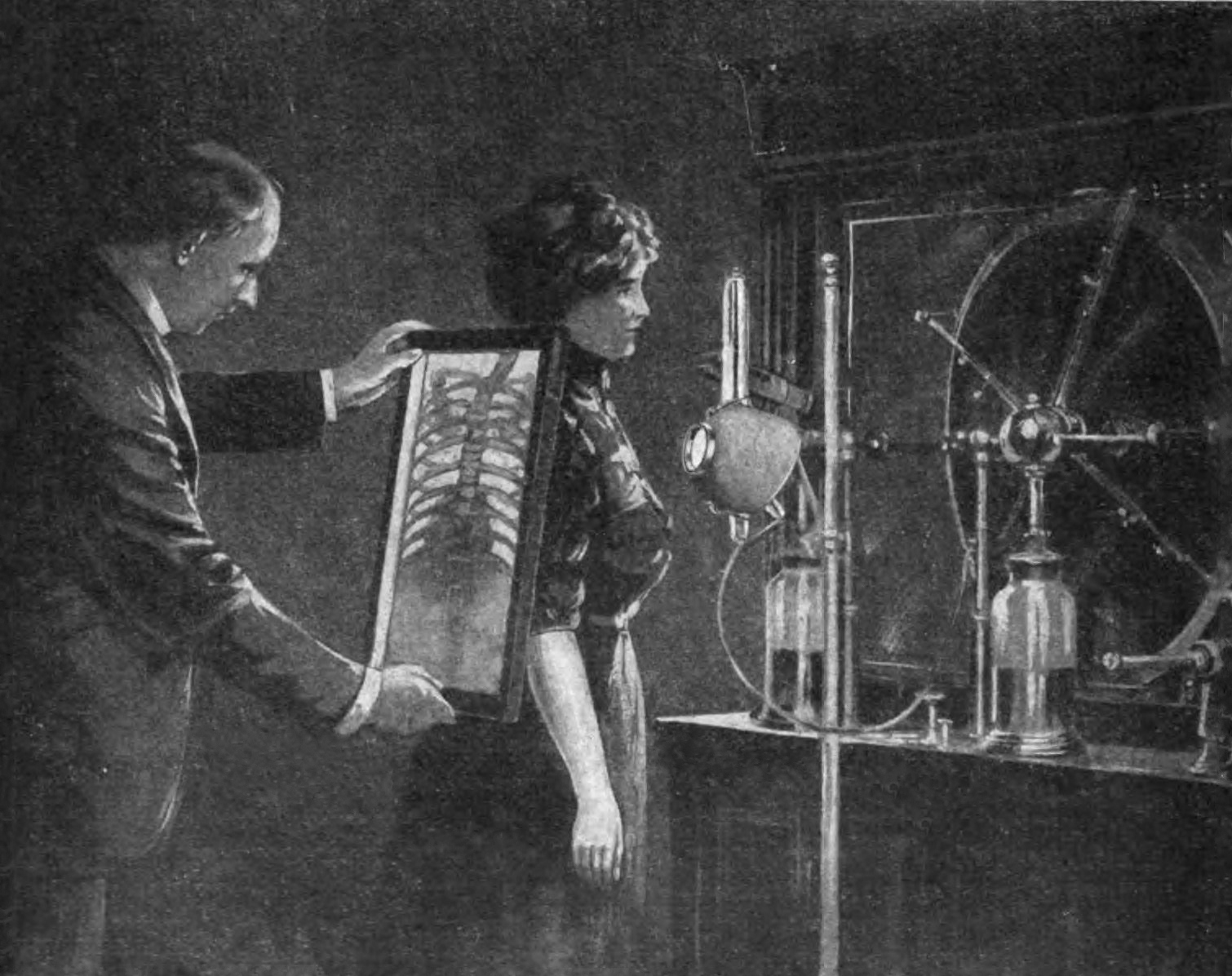 Woman having a fluoroscopy of the spine in 1909, using the earliest type of x-ray apparatus. The early Crookes x-ray tube supported by the pole is covered with a lead shield so it only emits a beam toward the patient. It is powered by high voltage electricity generated by the large electrostatic machine in the background, probably a Holtz machine. The doctor holds a fluorescent screen up to her back, a piece of glass painted with a fluorescent chemical such as calcium tungstate or barium platinocyanide, and the x-rays passing through her body cause areas where they strike to fluoresce with a greenish glow. No precautions against radiation exposure are taken, as its dangers were not known at the time.